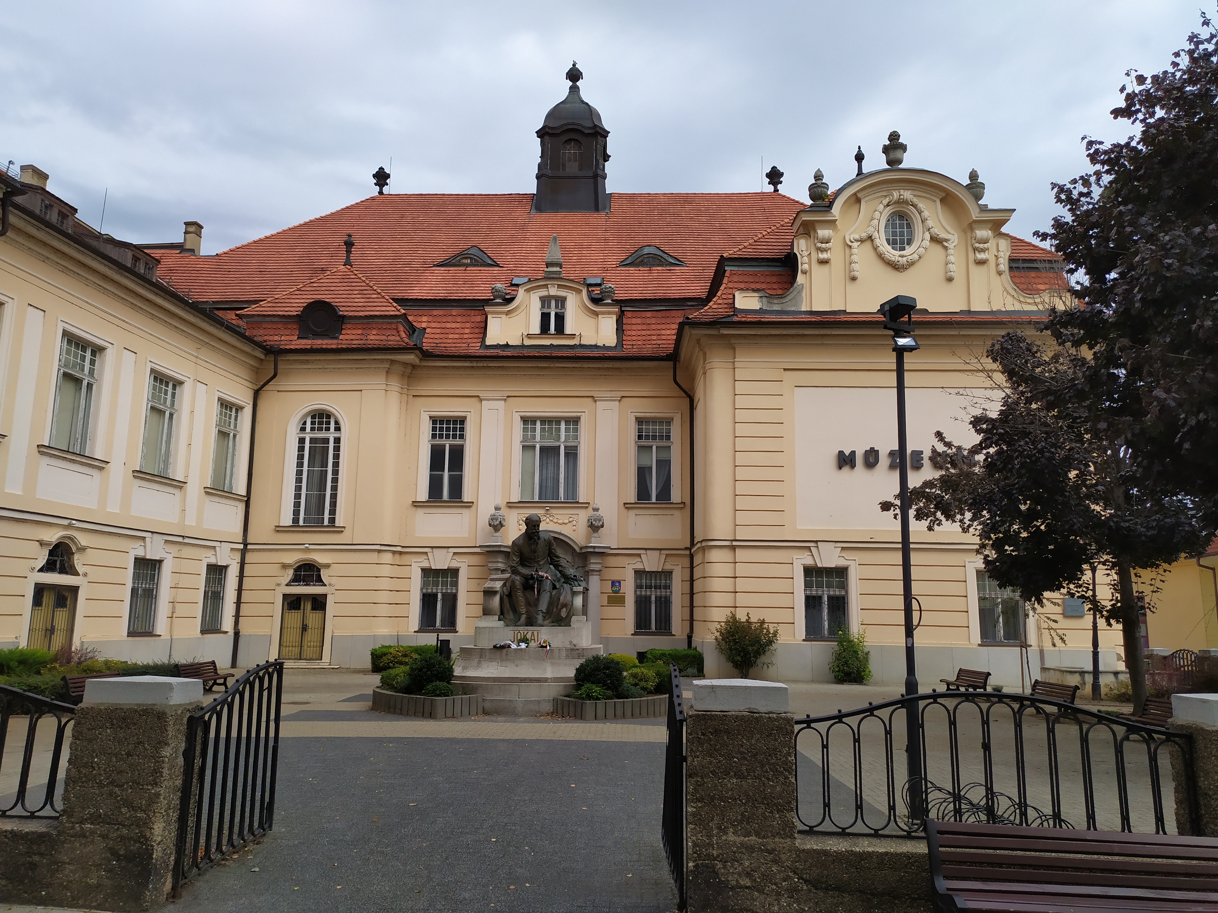 Danube Museum, Komárno